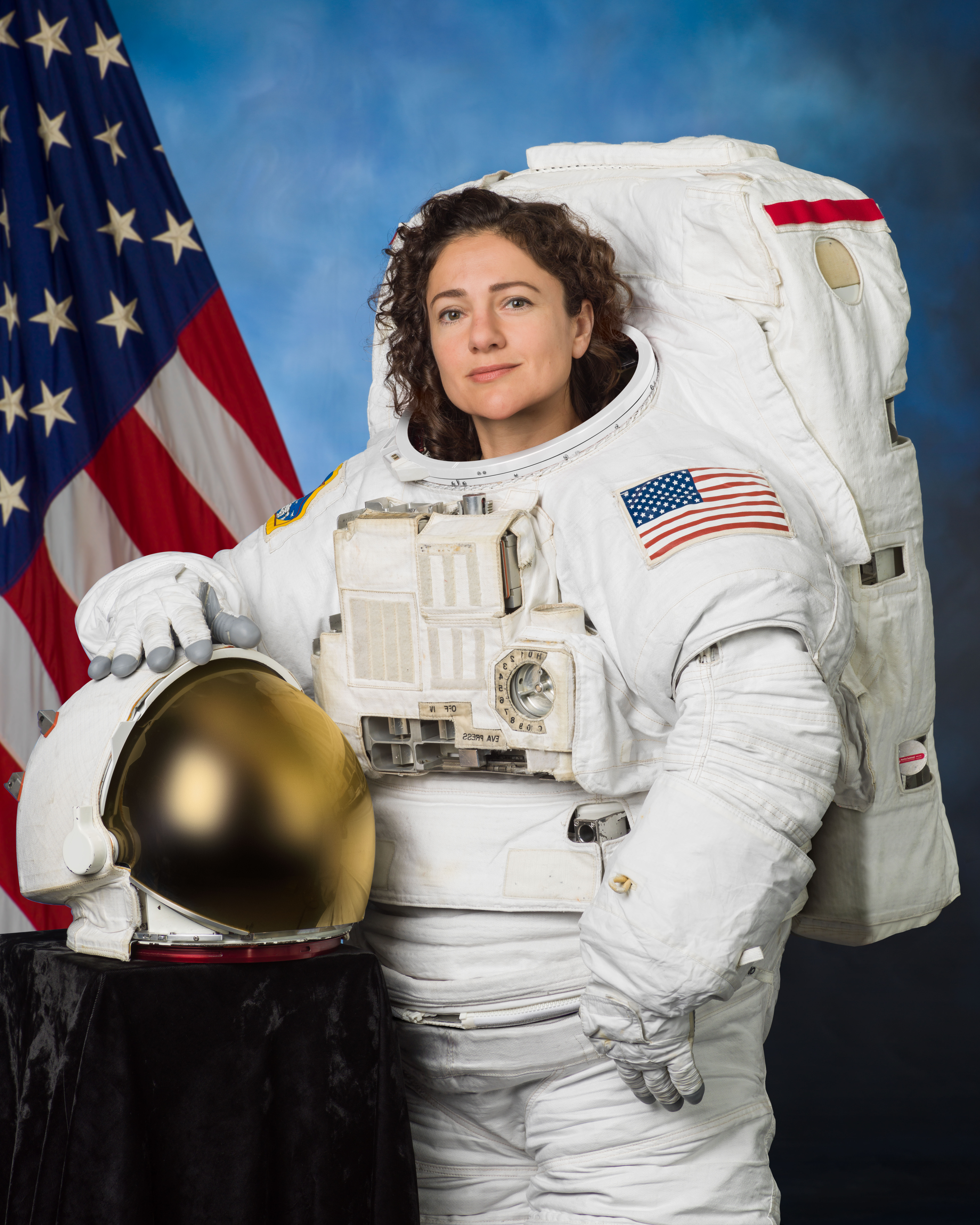 Portrait of NASA Astronaut Jessica Meir in an Extravehicular Mobility Unit (spacesuit).